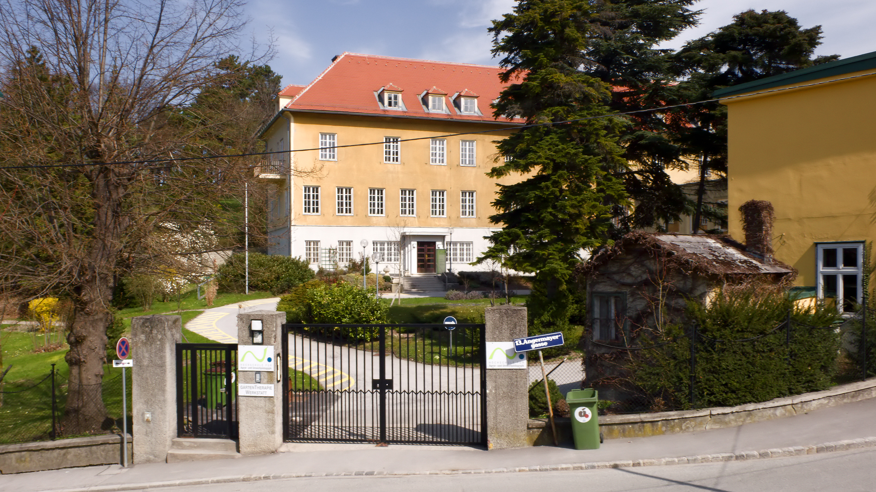 Villa Blum in Vienna Hietzing